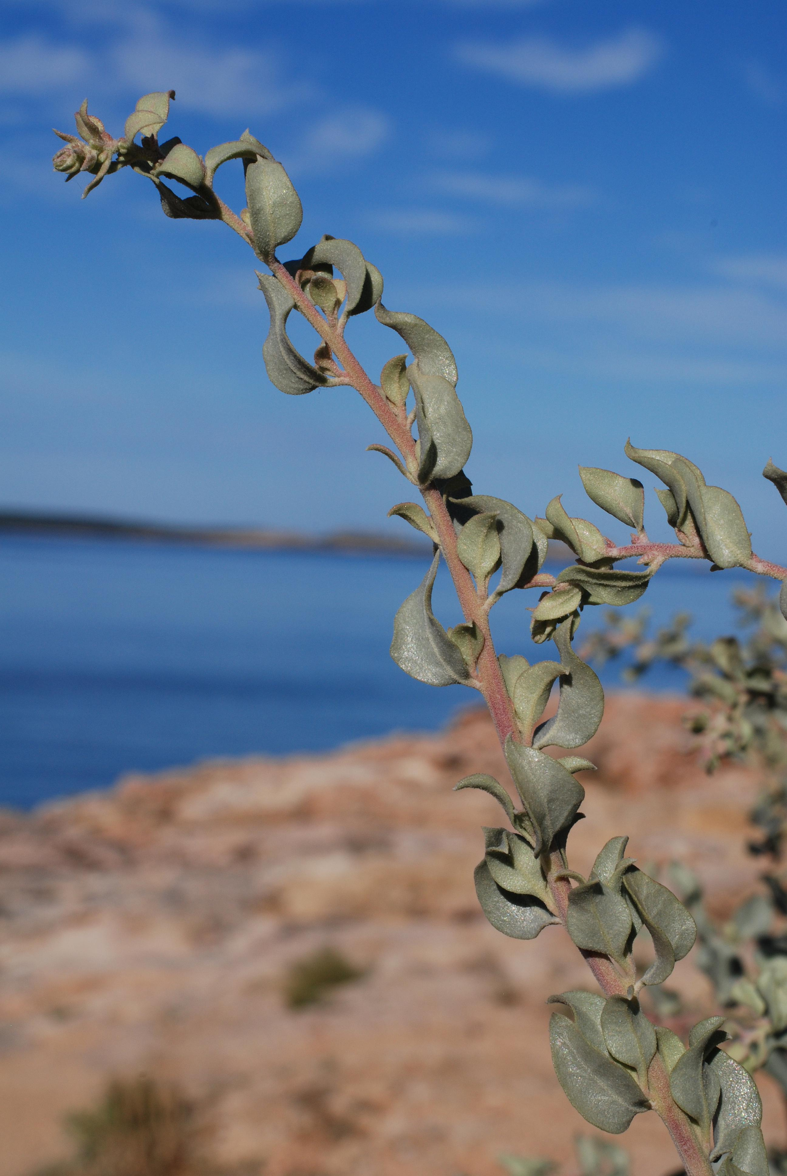 Atriplex halimus, Cap Blanc, Sant Antoni, Ibiza